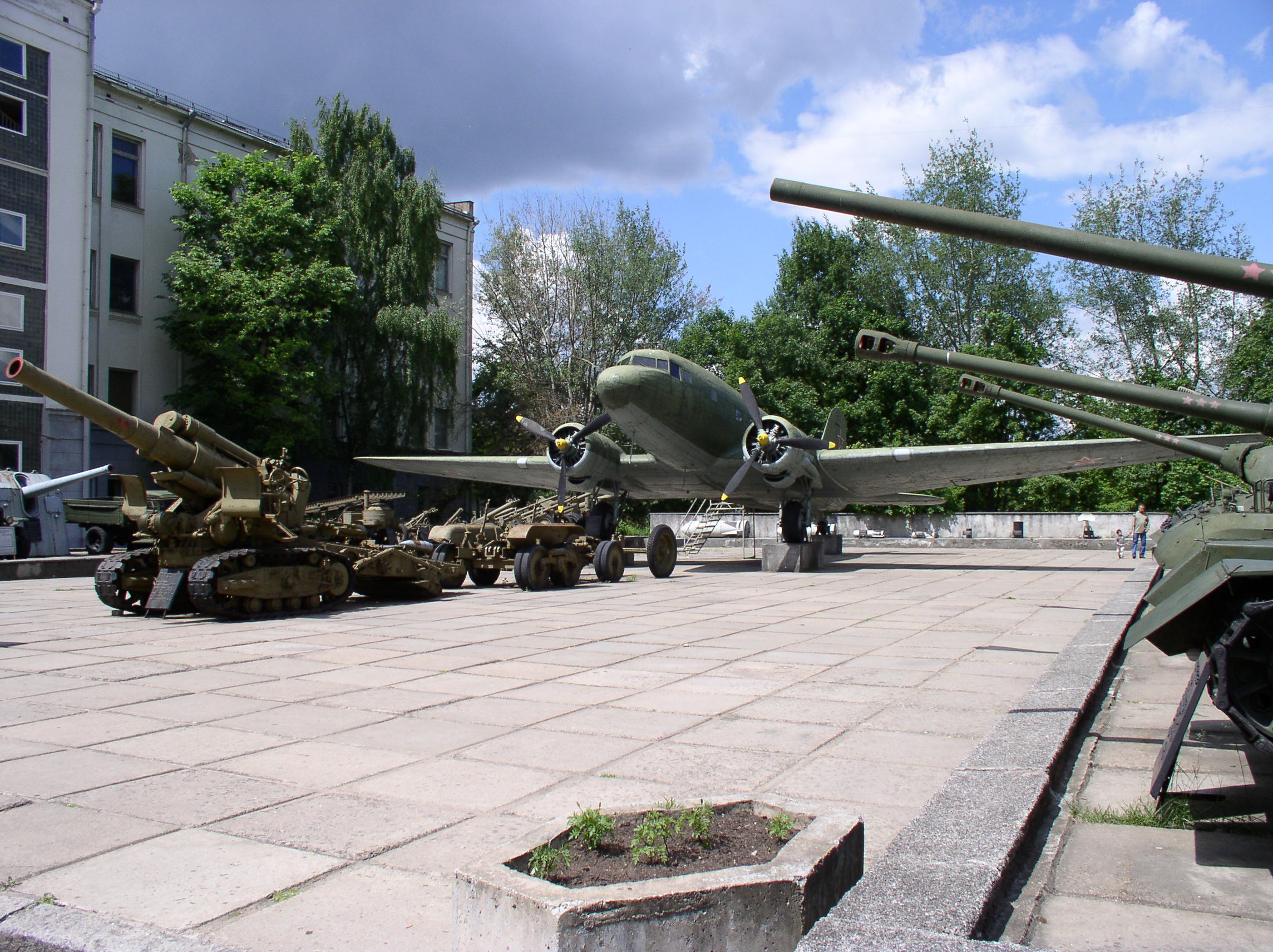 Museum of Great Patriotic War's Exhibition, Minsk, Belarus.